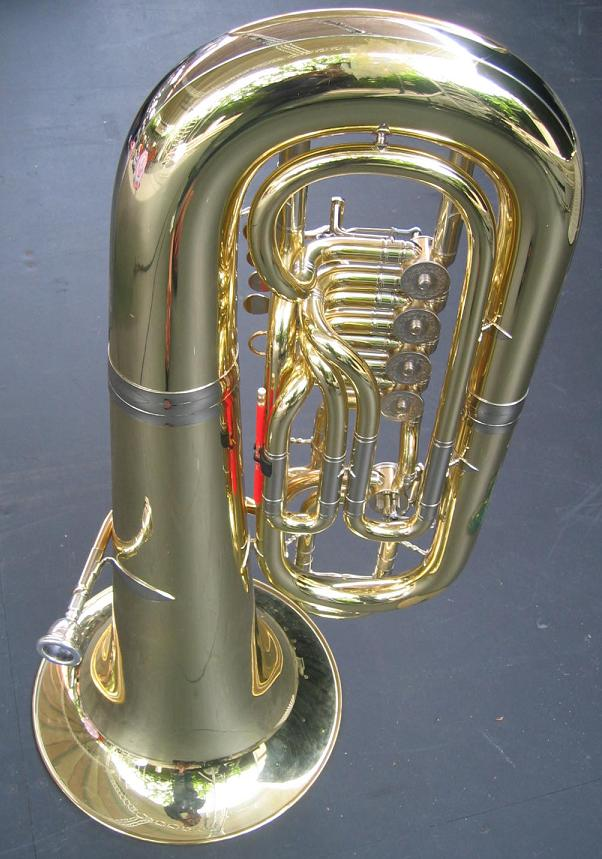 Tuba, brass instrument